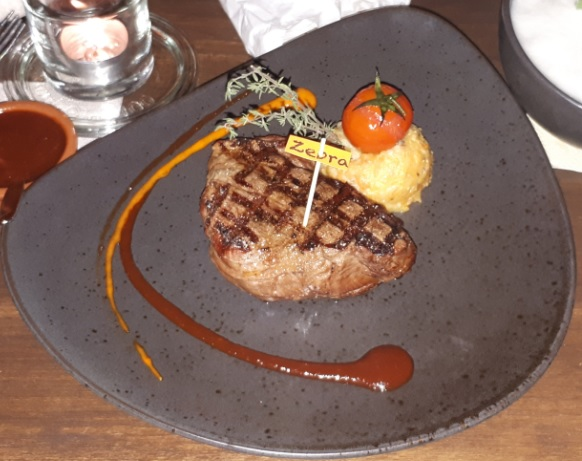 Grilled zebra meat in a restaurant in Munich, Germany